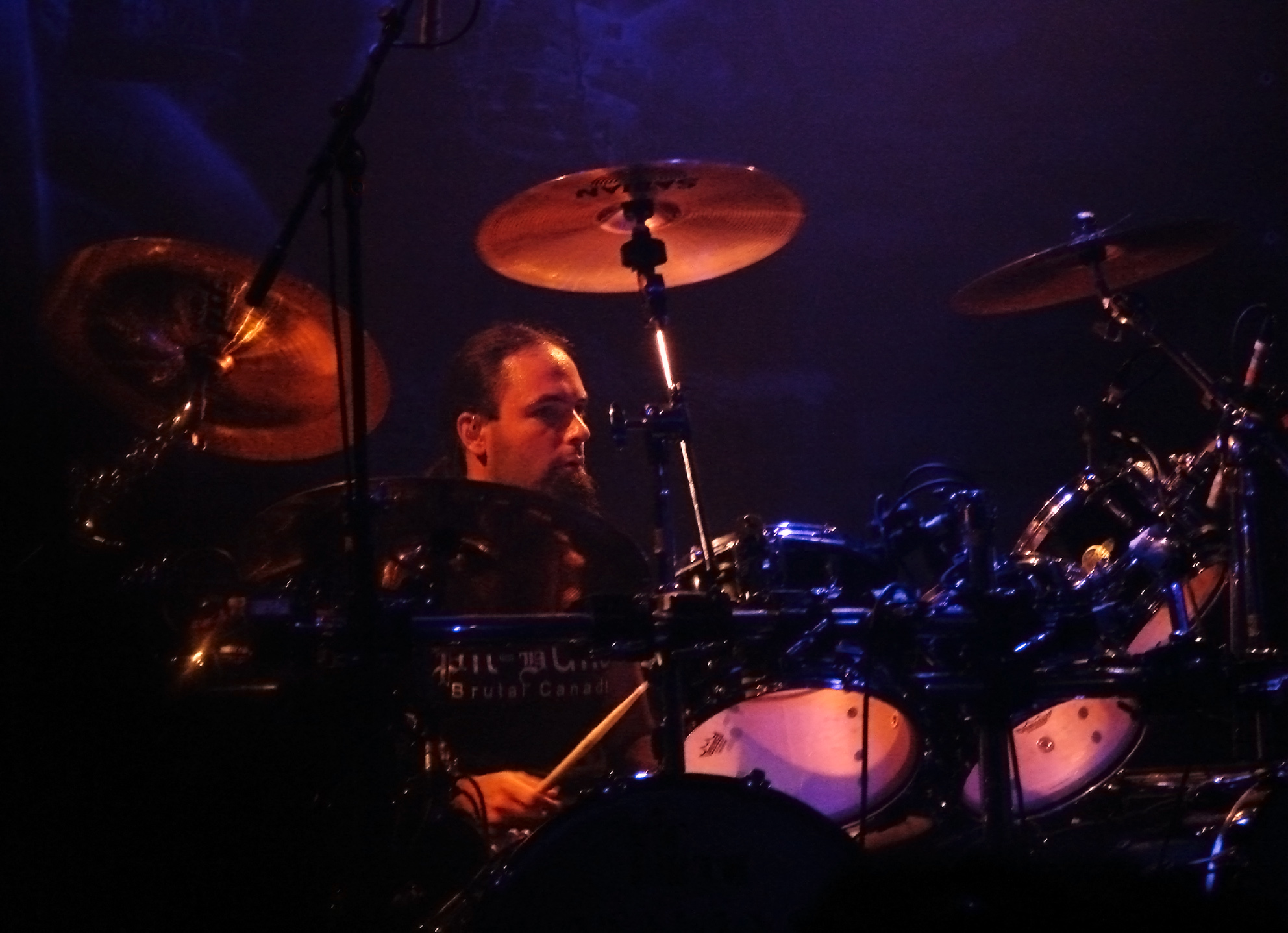 Kataklysm, a Canadian death metal band, during their concert in Strasbourg (France). 06/10/07.